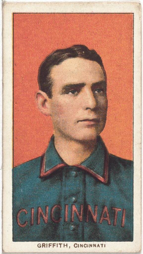 Title: Clark Griffith, Cincinnati Reds, baseball card portrait Abstract/medium: 1 print : relief with halftone, color.